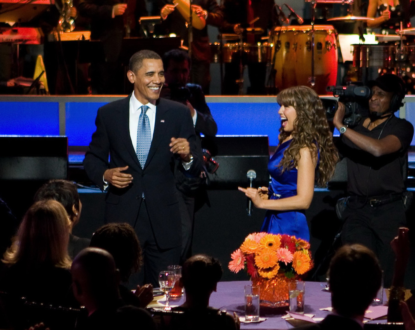 Singer Thalía gets President Barack Obama to dance with her while singing at the "In Performance at the White House: Fiesta Latina," a concert celebrating Hispanic musical heritage held on the South Lawn, Oct. 13, 2009.